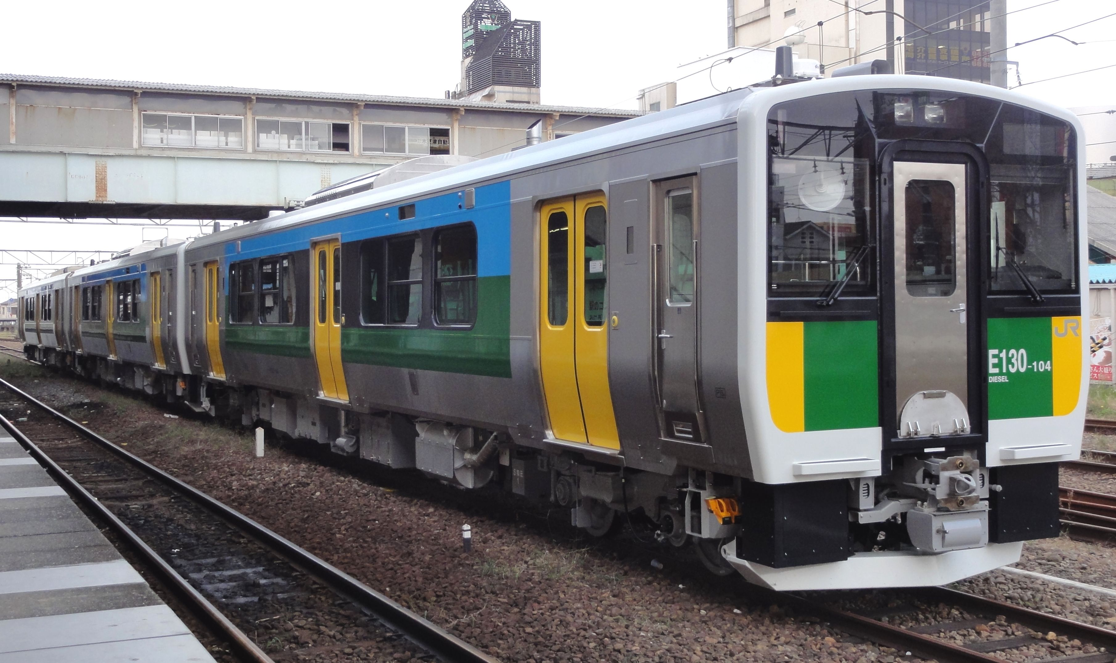 JR East KiHa E130 series DMU KiHa E130-104 at Kisarazu Station